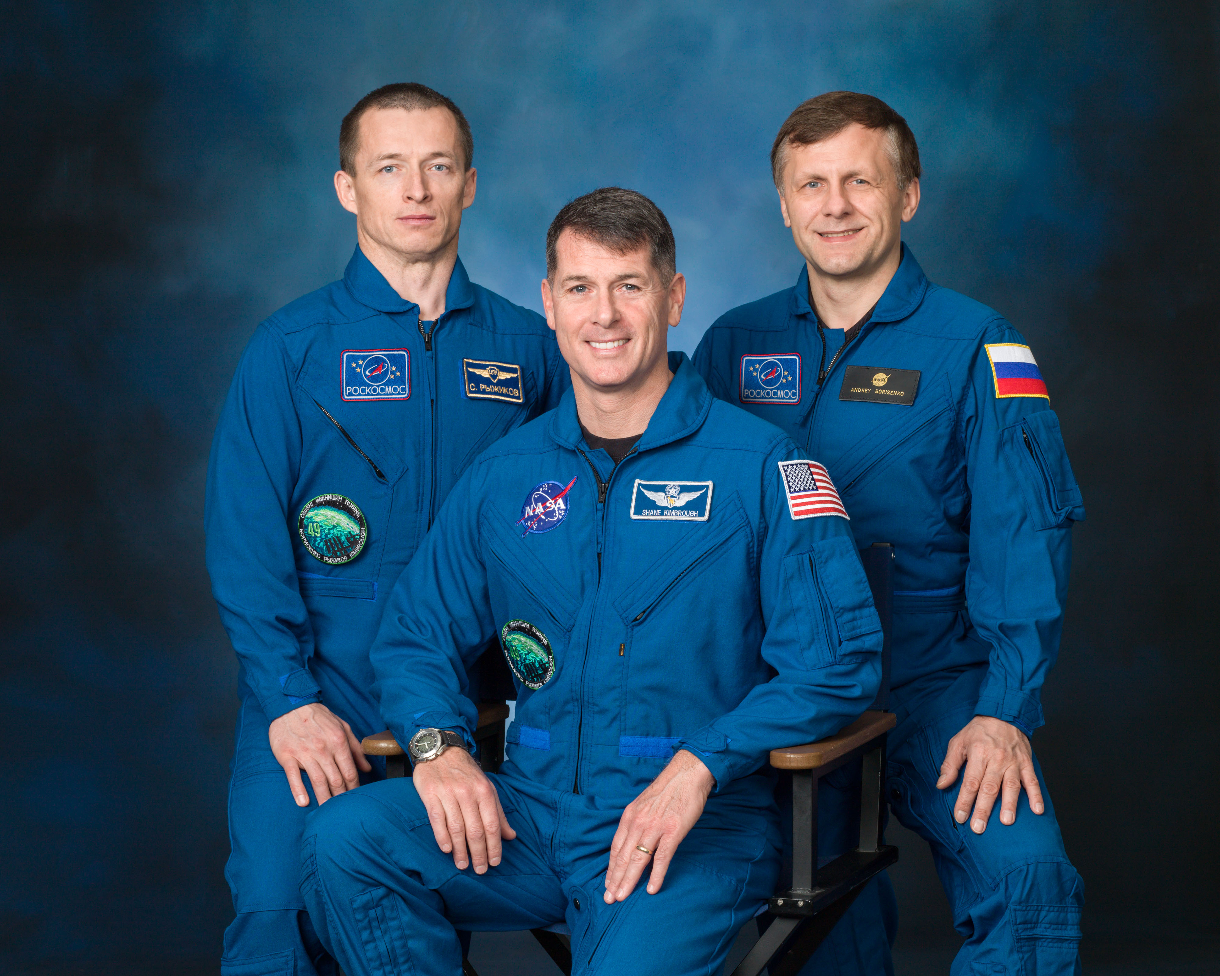 Expedition 49 official crew portrait with 47S crew (Anatoli Ivanishin, Kate Rubins, Takuya Onishi) and 48S crew (Shane Kimbrough, Andrei Borisenko, Sergei Ryzhikov). Photo Date: January 13, 2016. Location: Building 8, Room 183 - Photo Studio. Photographer: Robert Markowitz